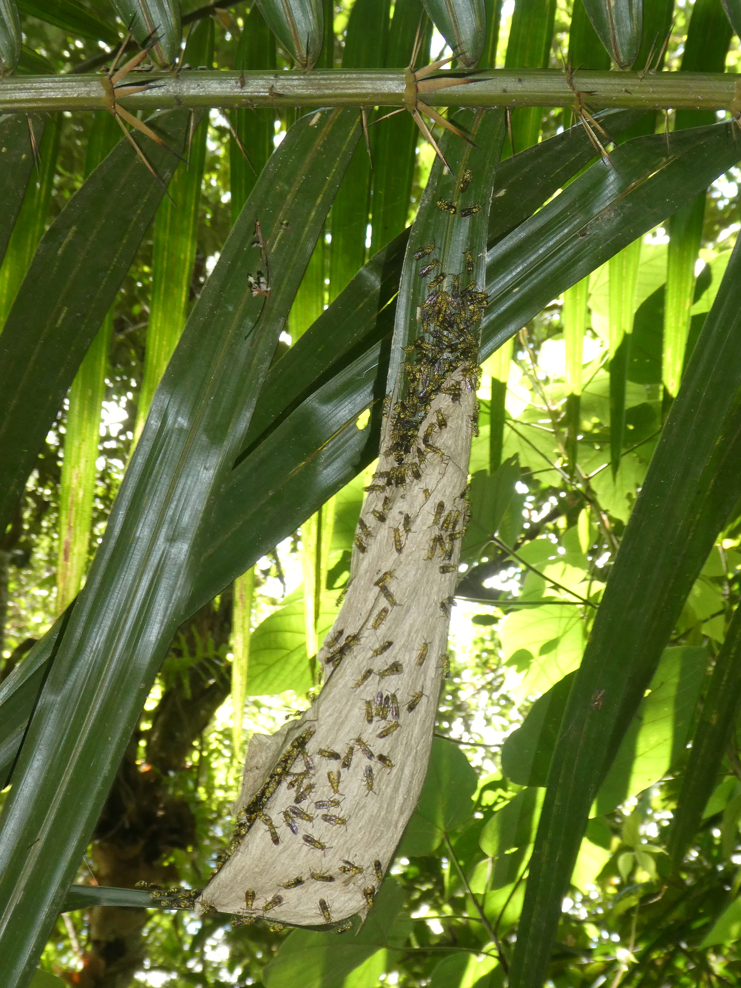 Ropalidia cf. ornaticeps nest in Cat Tien National Park, by Roy Bateman